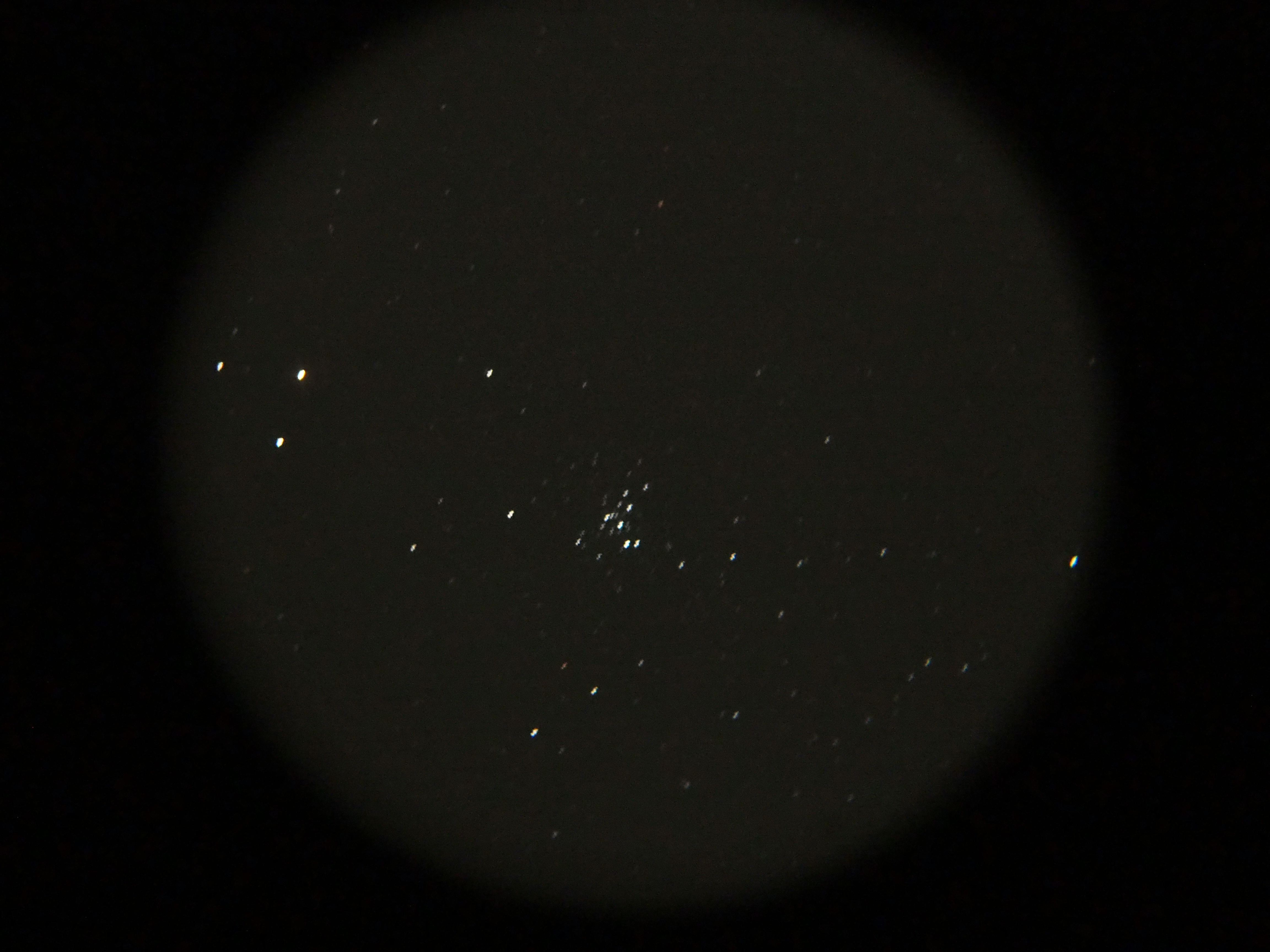 NGC 6231 photographed through a 36mm eyepiece from a SKYWATCHER DOBSONIAN 8″ telescope.